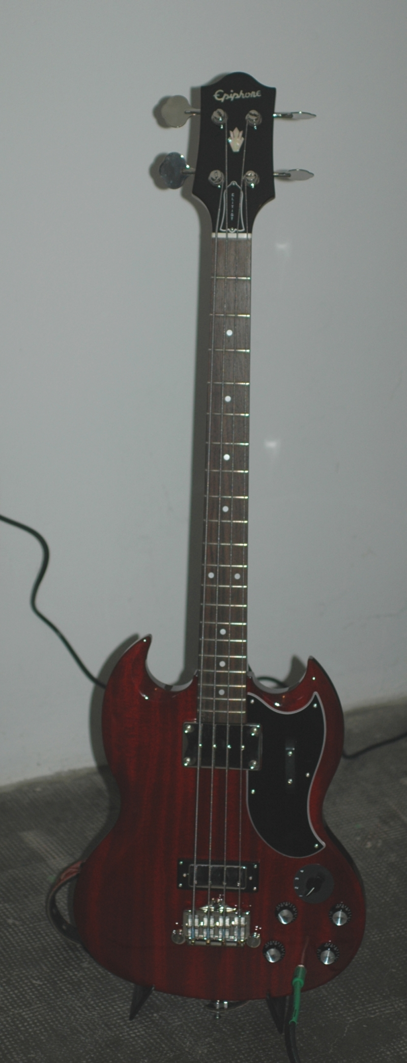 Gibson EB3 Bass Guitar by Epiphone (Elitist) Photo Joachim Hensel-Losch